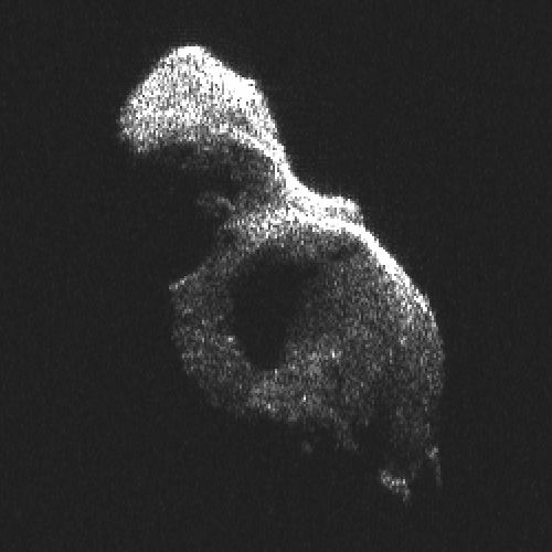 Radar delay-Doppler images of asteroid 2014 HQ124. The Earth and radar transmitter are toward the top of each frame. Each frame has the same orientation, delay-Doppler dimensions, resolution (3.75 m by 0.0125 Hz), and duration (10 minutes). Arecibo images appear on the top row and Goldstone images appear on the other rows: Arecibo Observatory capabilities eliminated the "snow" visible in the other images.There is a gap of about 35 minutes between rows 1 and 2. Credit: Marina Brozovic and Joseph Jao, Jet Propulsion Laboratory/ Caltech/ NASA/ USRA/ Arecibo Observatory/ NSF.